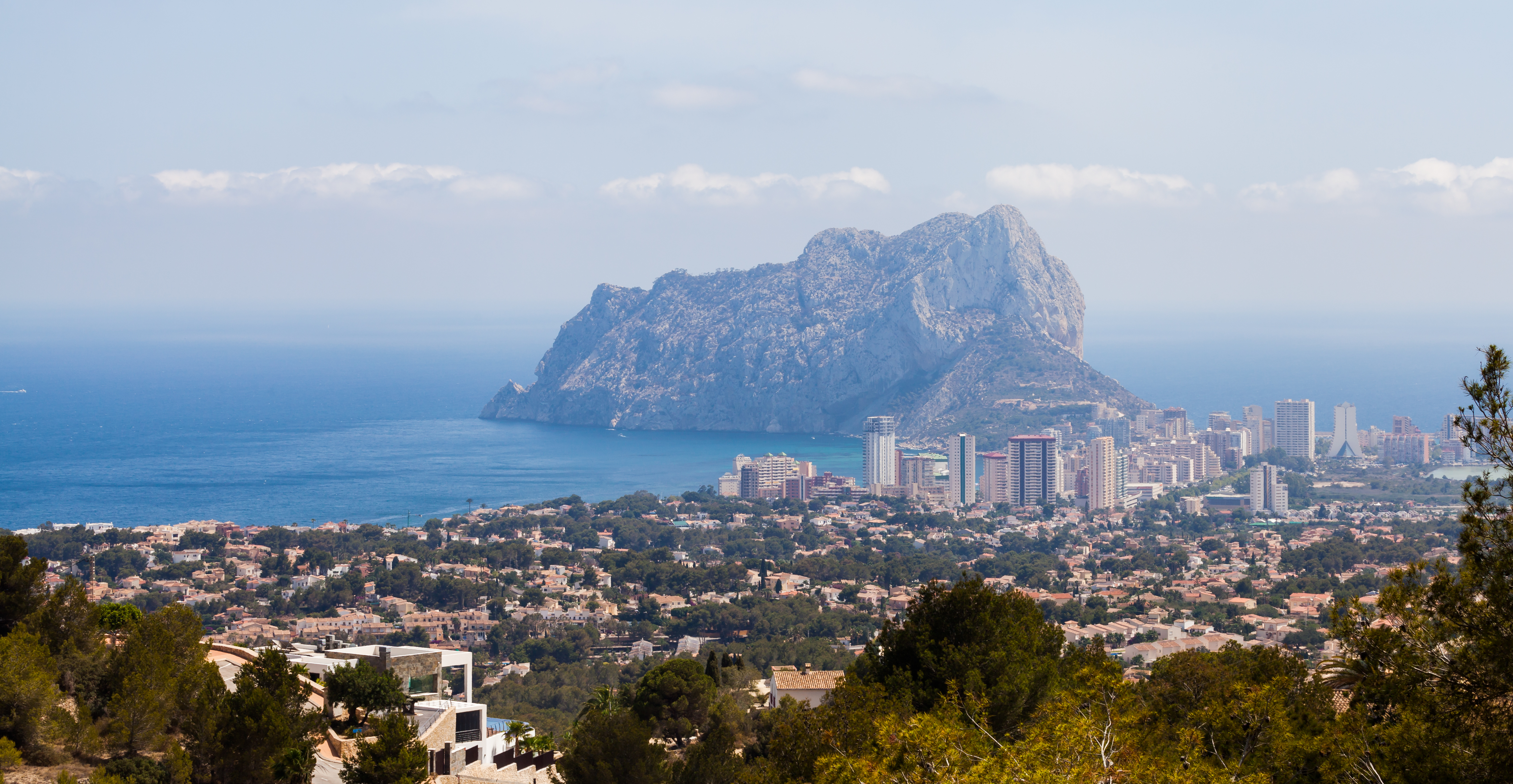 Rock of Ifach, Calpe, Spain